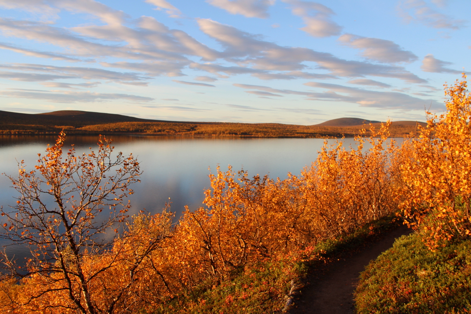 Autumn colours at Kevo Strick Nature Reserve in Finland